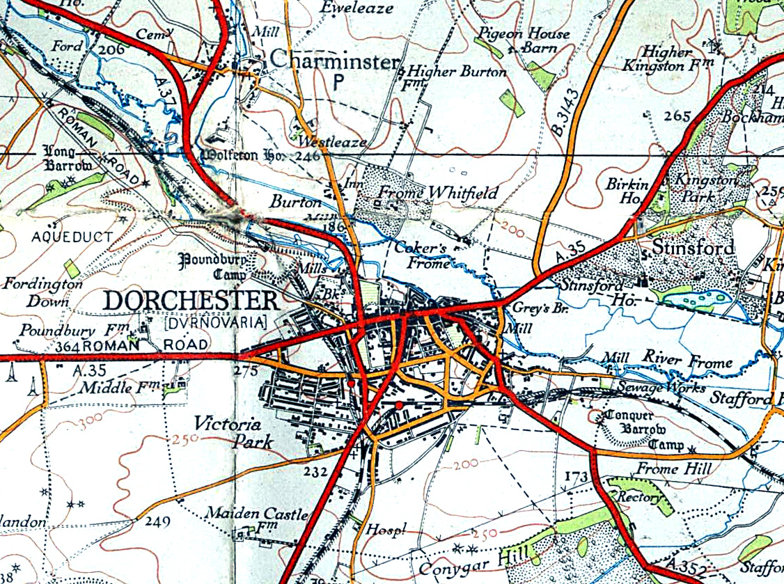 Reproduced from the 1937 OS map Briefly cleaned by Joe D (t) 00:56, 22 August 2006 (UTC) Increased contrast to remove the light grey background Fiddled with colour levels to slightly increase saturation and reverse bleaching/muddying Rotated 0.48 degrees CCW & cropped slightly 100% 2px unsharp mask Some of the mould erased